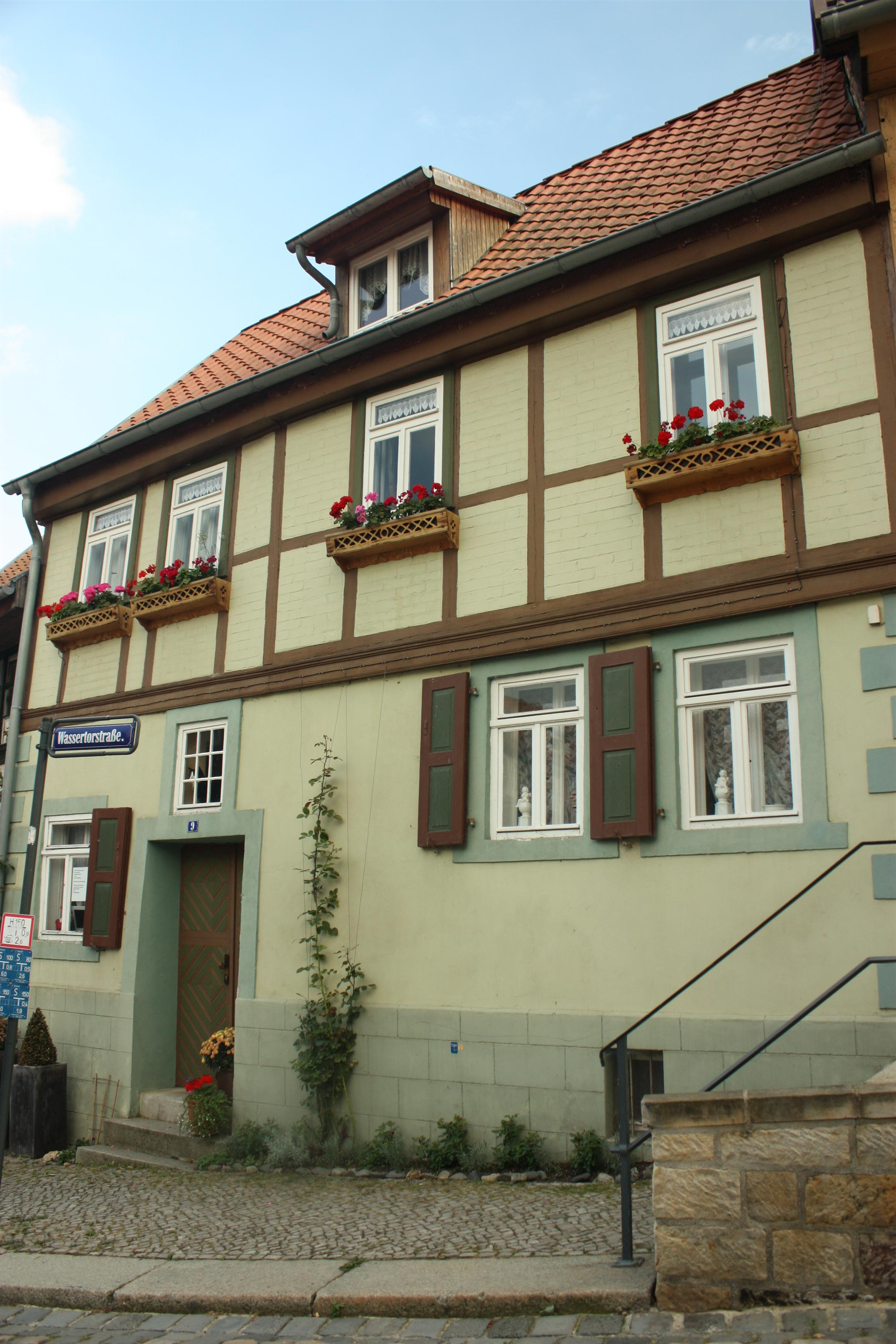 This is a photograph of an architectural monument.It is on the list of cultural monuments of Quedlinburg Wassertorstraße 09 (Quedlinburg)